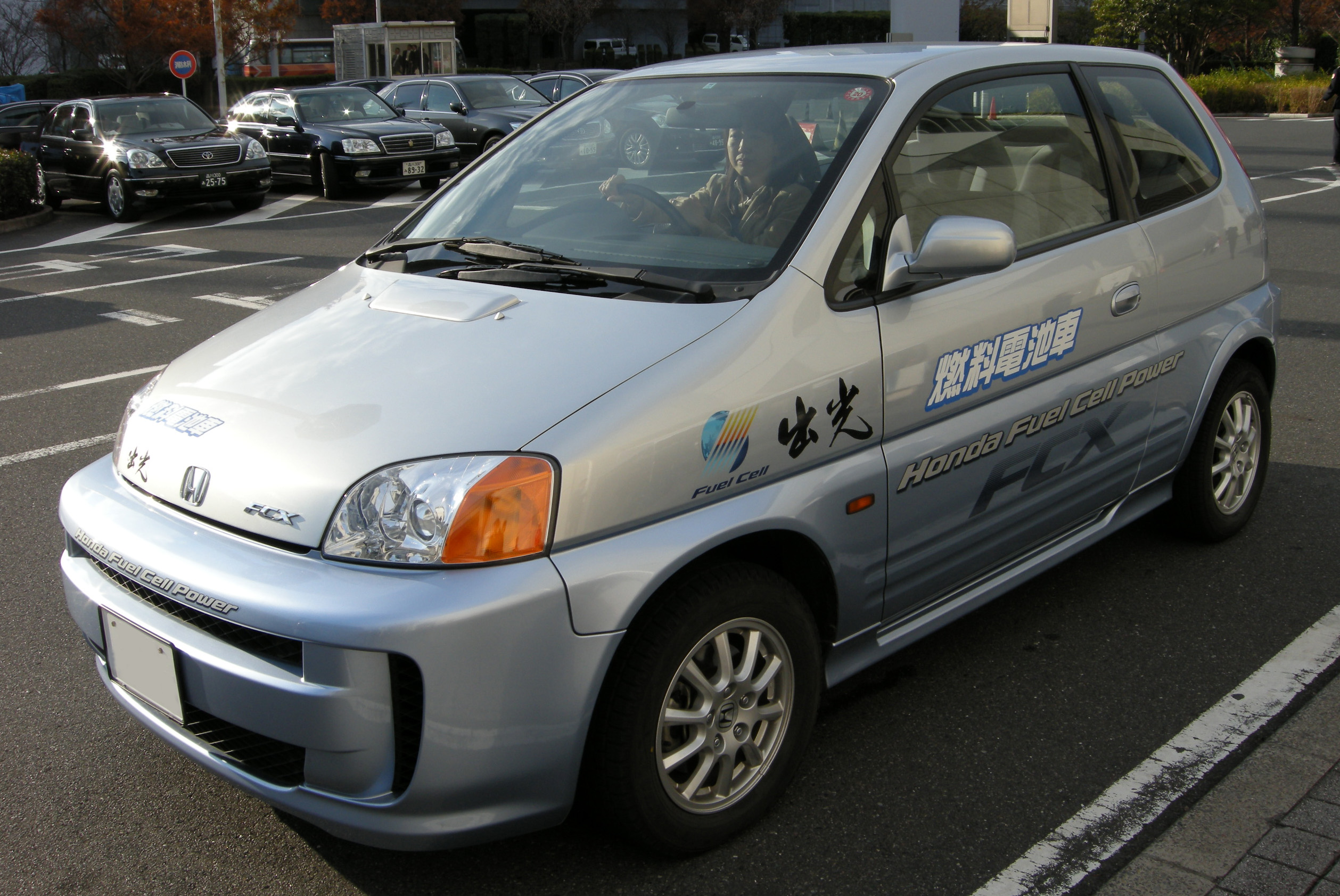 Honda FCX in Eco Products 2007 at Tokyo Big Sight (Koto, Tokyo)